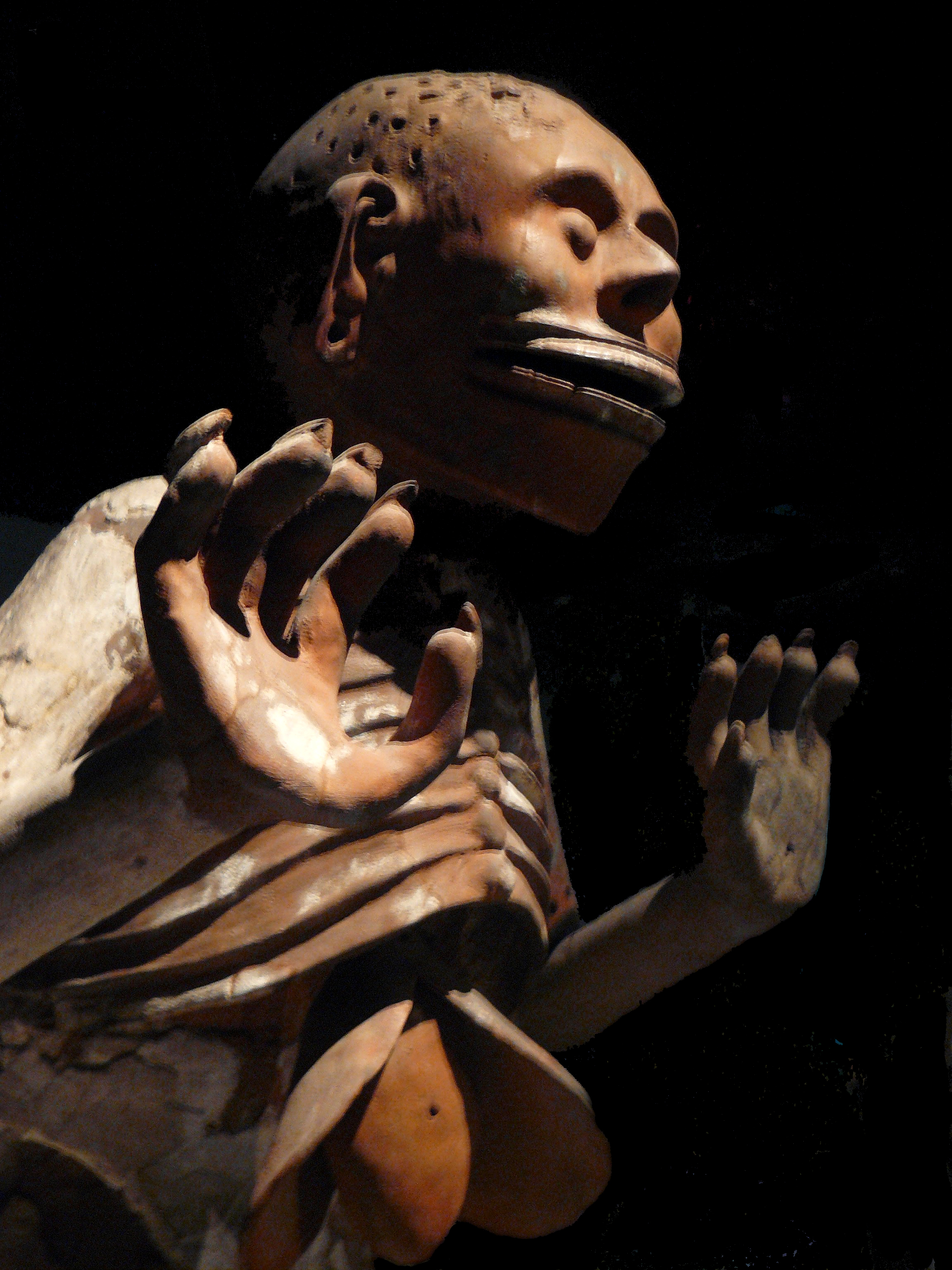 Mictlantecuhtli sculpture at the museum of the Great Temple in Mexico City